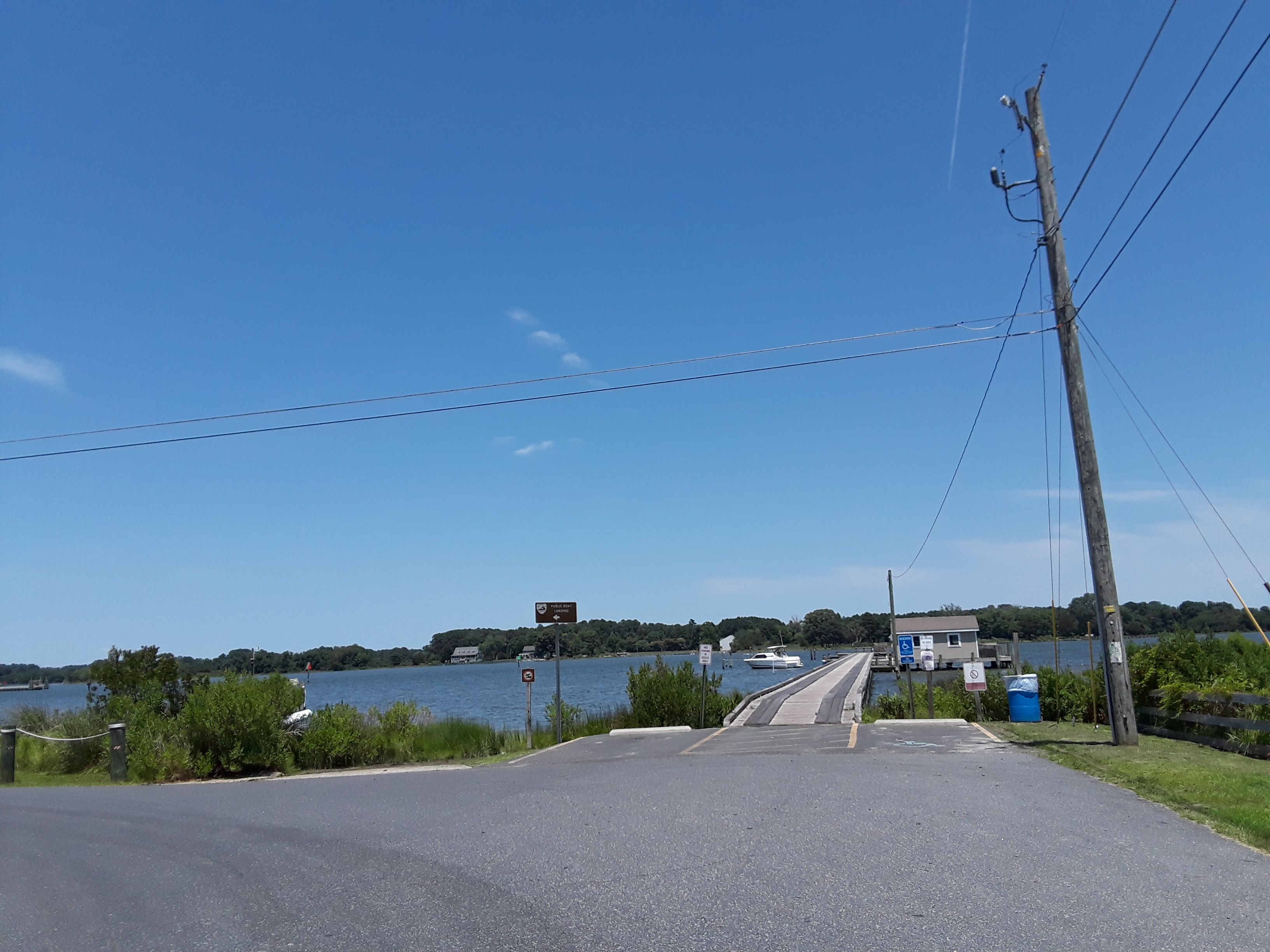 Taken on a visit to the Eastern Shore of Virginia, July 2018